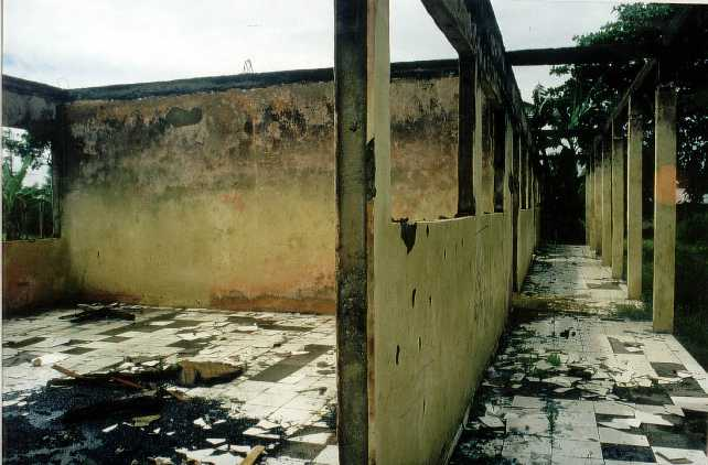 Burned school in Wecian (Wekiar). Destroyed by Indonesian militia